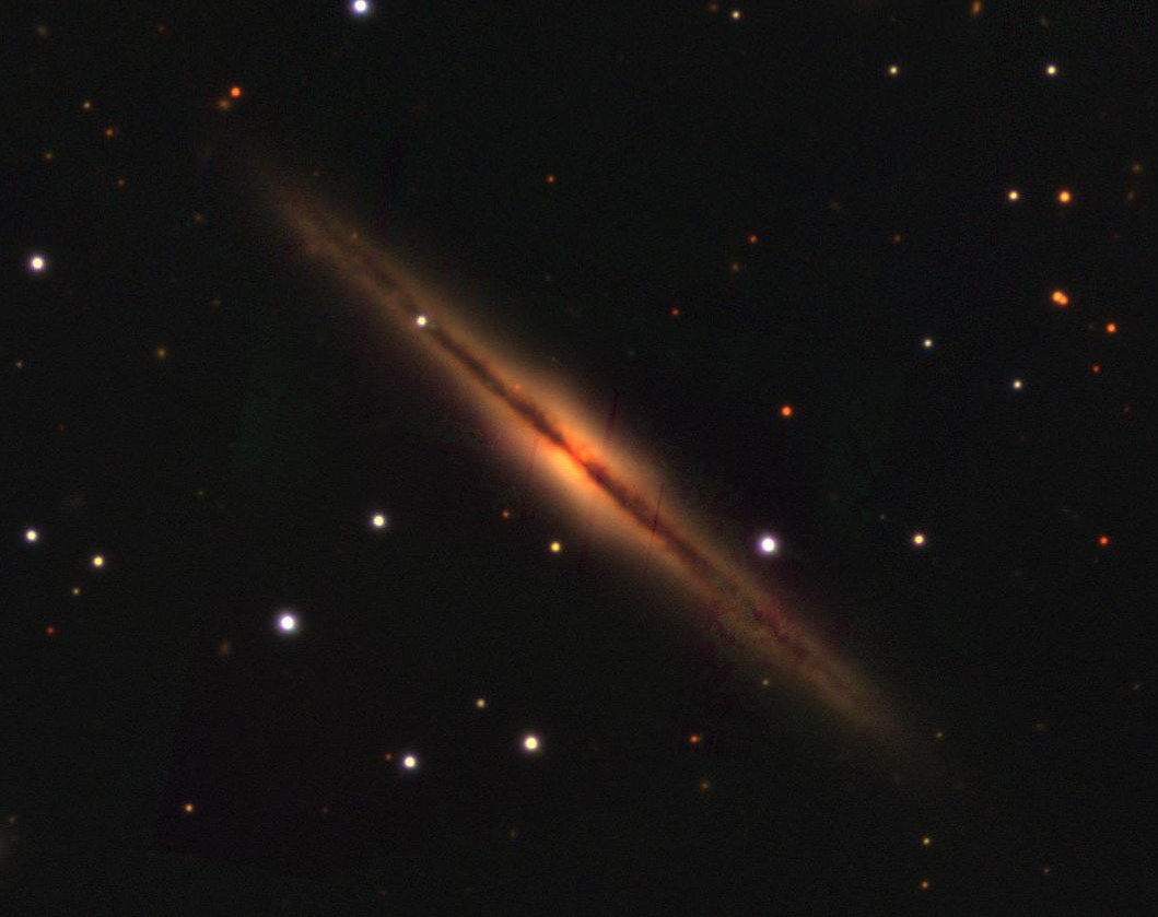 Color image of NGC 973 created by the stacking of i, r, and g filter images provided by PanSTARRS-1 archive.